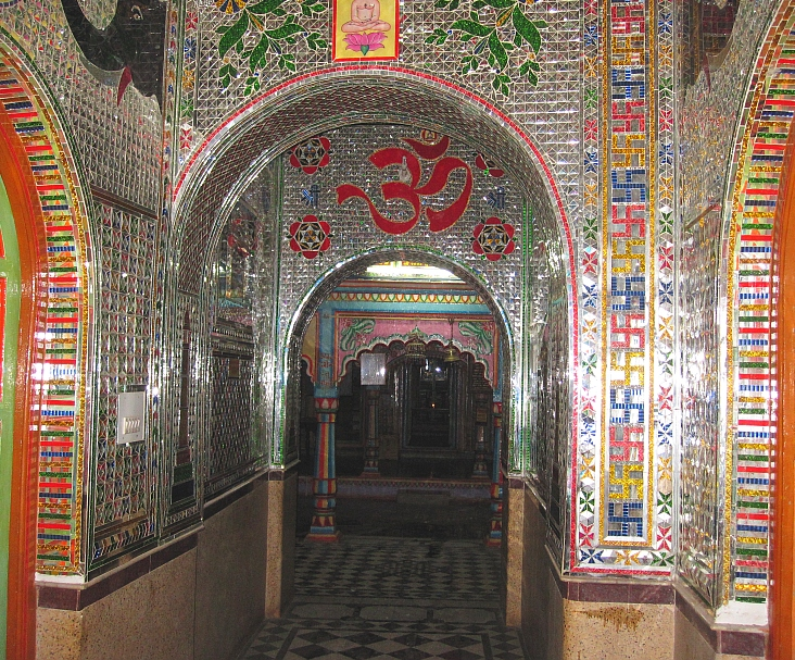 Jain temples Katni, MP, India, with glasswork inspired by the Kach Ka Mandir, Indore.